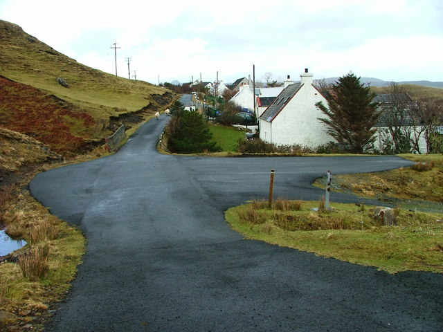 Peinachorrain